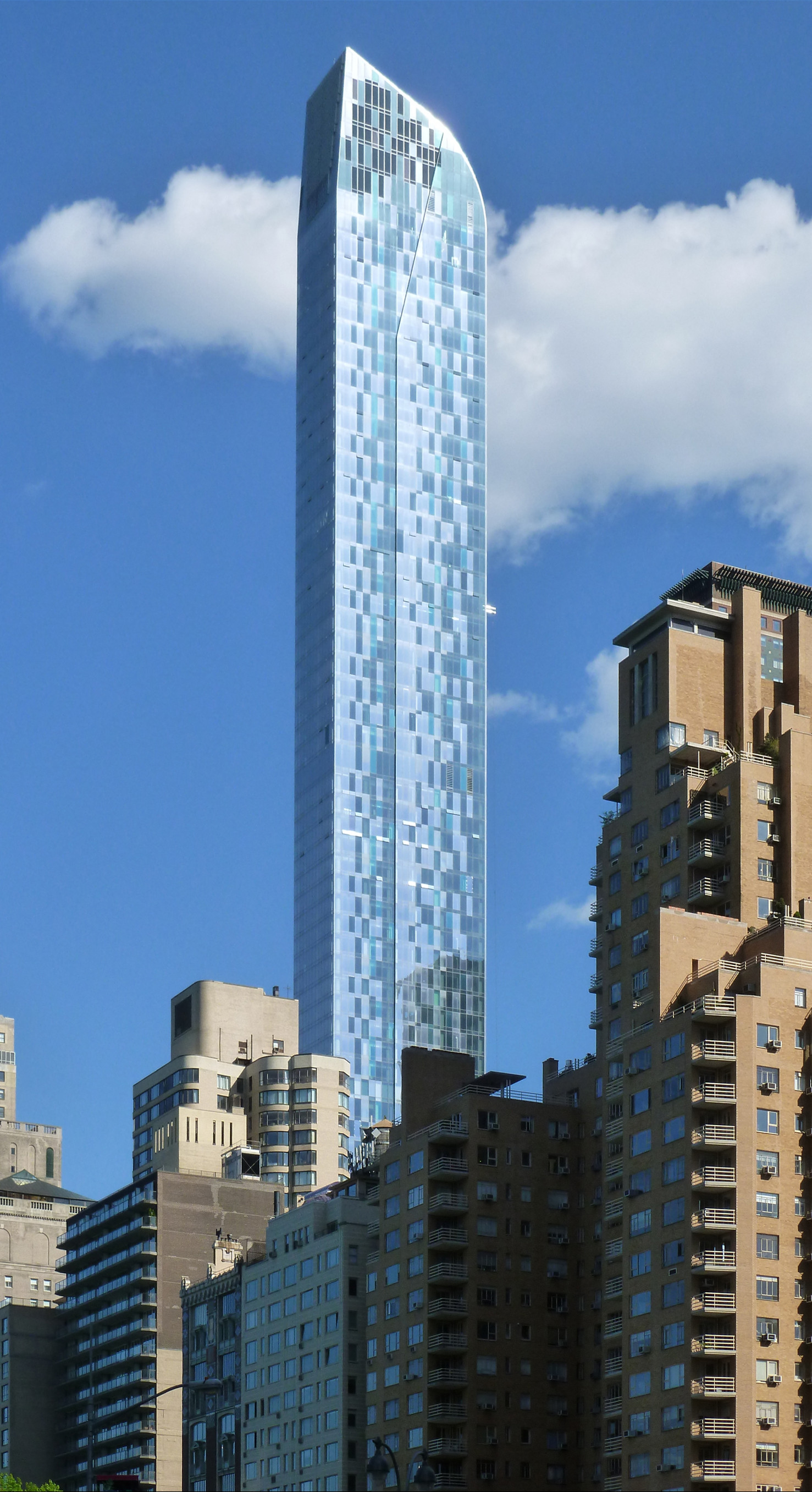 One57 from Columbus Circle on 25 May 2014.